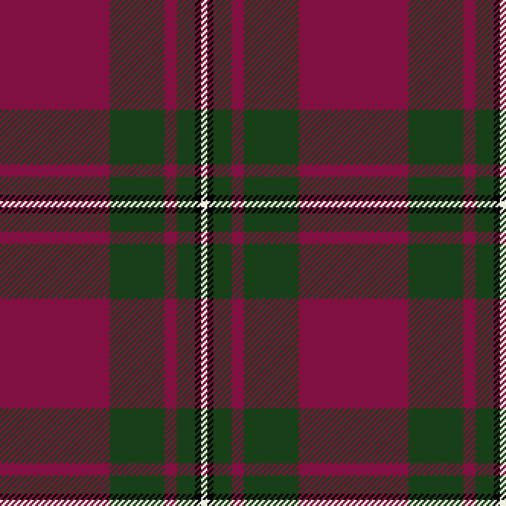 A digital representation of the MacGregor of Cardney tartan. Thread count used for this image was crimson-96, green-42, crimson-16, green-17, black-4, white-6. The white is a 'neutral' or 'off-white'.